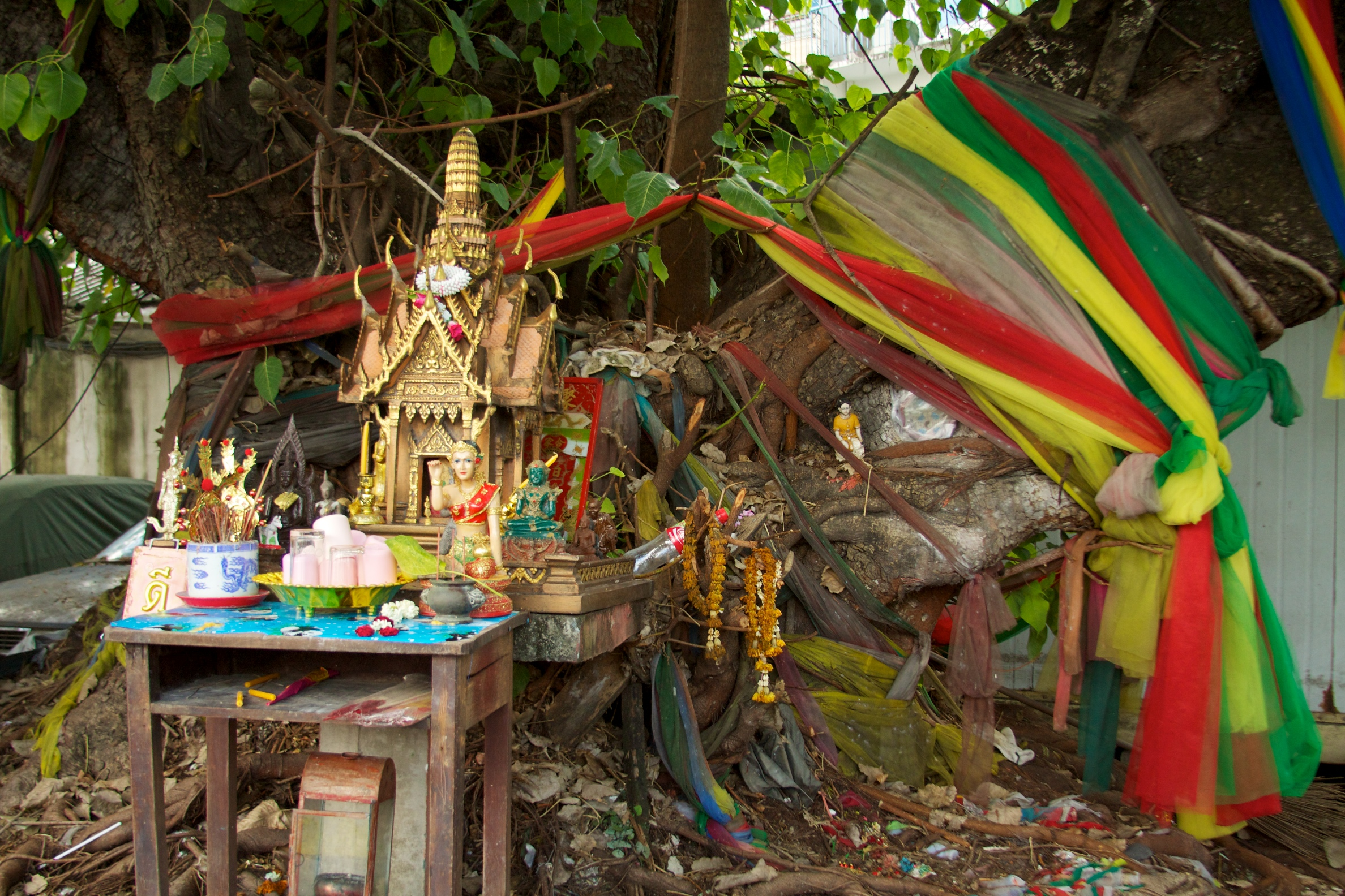 well-tended srine at Wat Pathumkongka